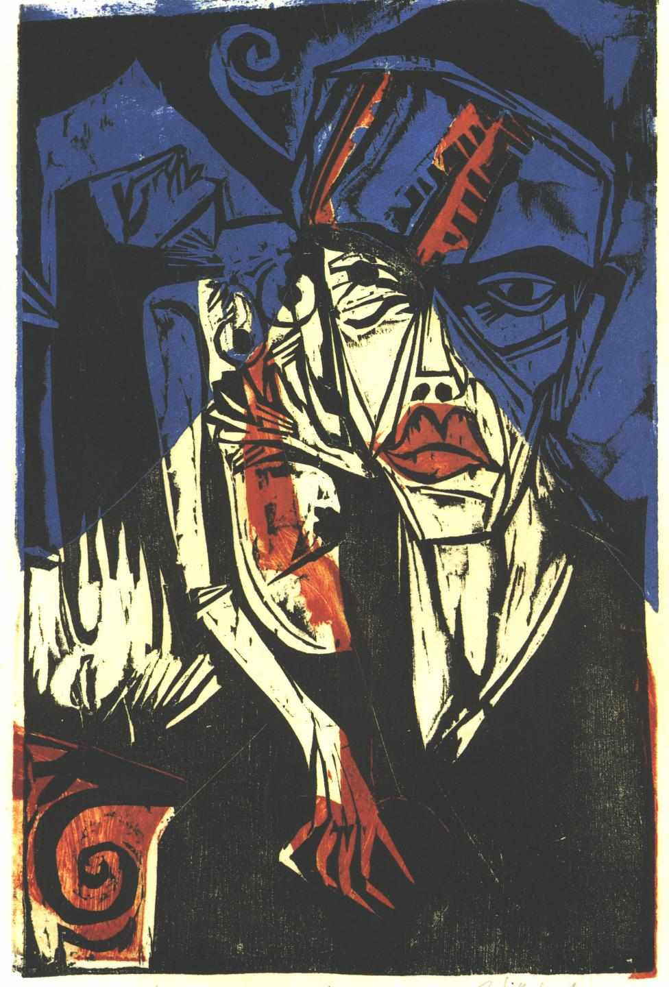 Fights